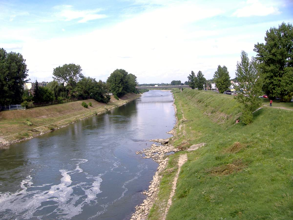 Picture taken in Przemyśl, Poland, 2006